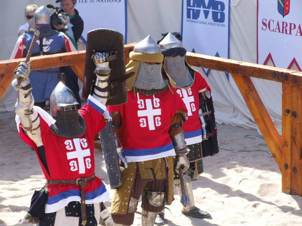 Serbian team members of the national team in historical medieval battles sport preparing for a match.